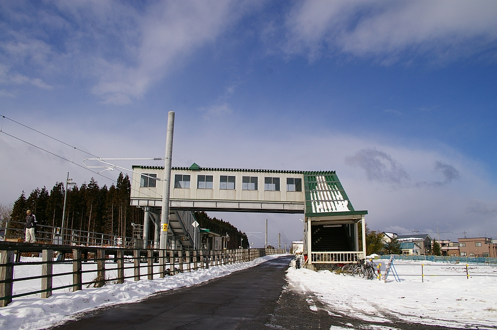 Shin-Aomori sta. (Tokyo) -- JR-EAST Ome Line